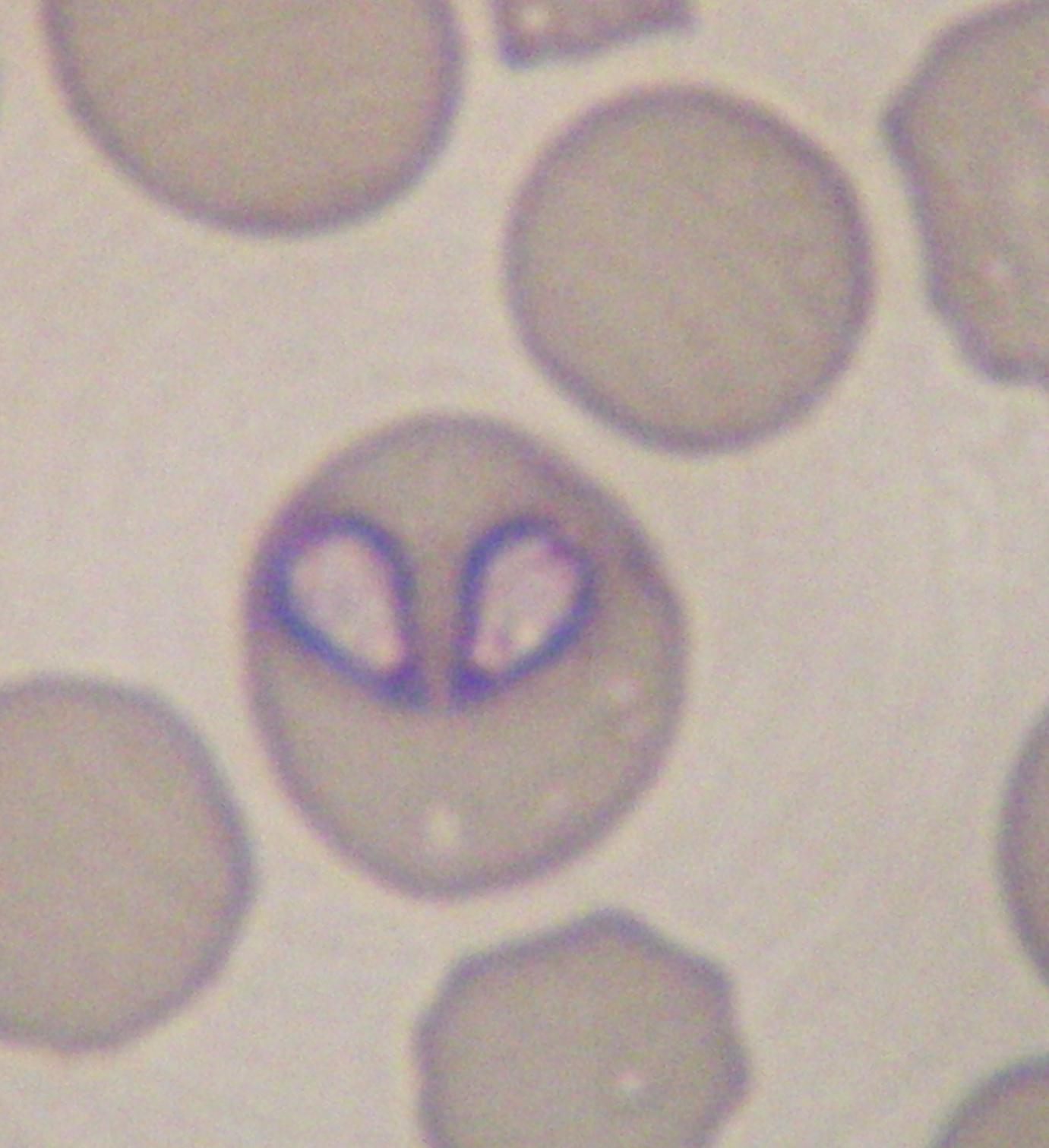 Babesia infected red blood cell in a dog